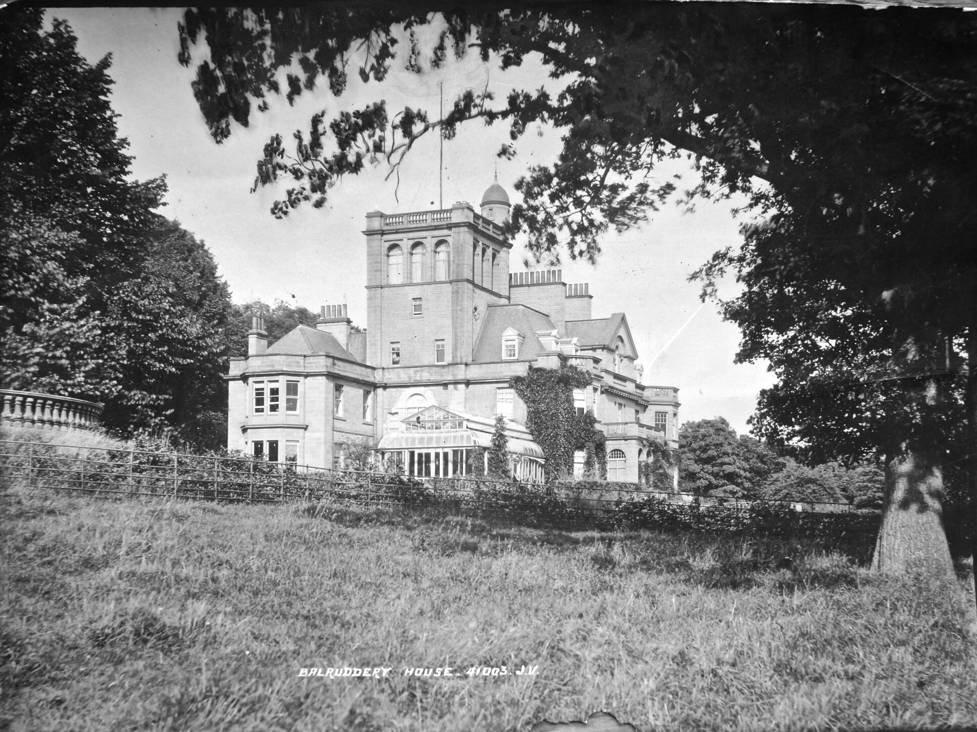 Balaruddery House after the fire, circa 1920s